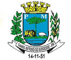 According to the Brazilian Law on Industrial Property (Law 9.279 from May 14th, 1996; See translation), Chapter IV, Article 124, Brazilian official symbols are Public Domain because they can be copied and reproduced without any permission from the Brazilian government or anyone else unless they are being copied or reproduced with foul intentions.